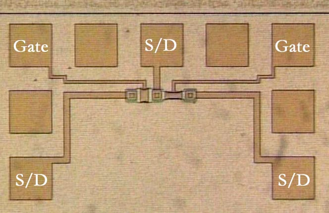 Two test MOSFETS of different lengths and widths, on a metal-gate MOS chip. Modified from the Public Domain image MOS 768x576.jpg; straightened, cropped, enhanced, labeled.